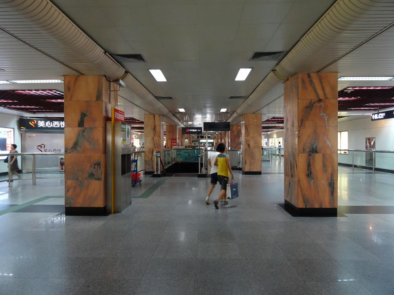 芳村站嘅站廳